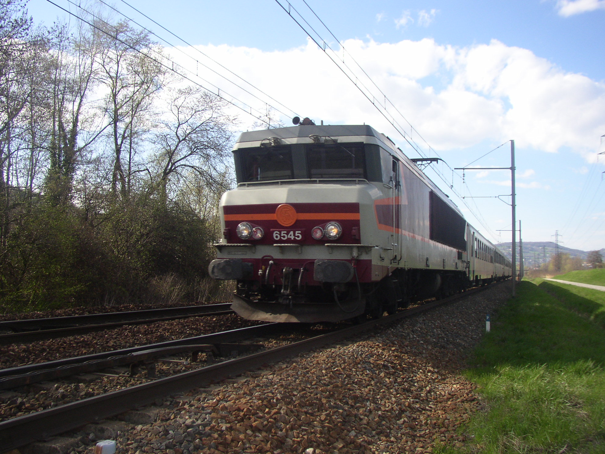 Class SNCF CC 6545 seen at Bois-Plan some kilometers from Chambéry in Savoie, France.